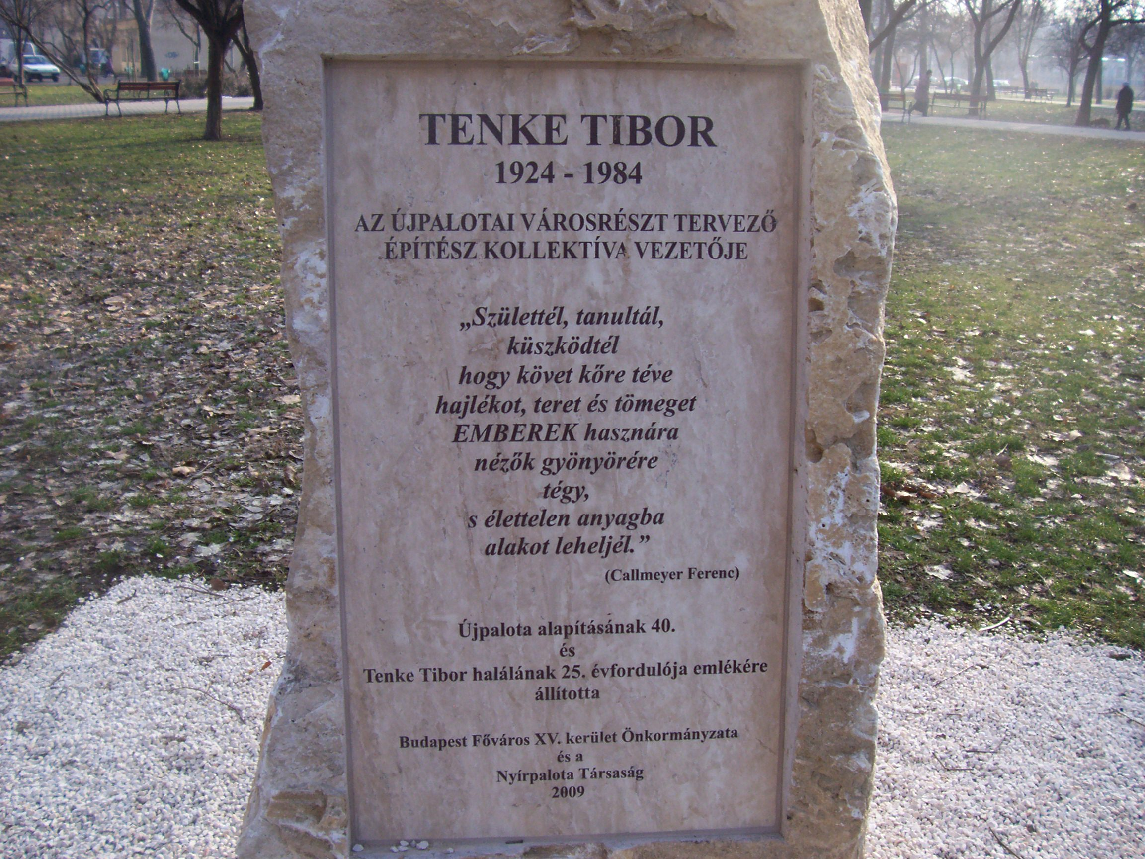 Commemorative plaque of Tibor Tenke, Budapest District XV